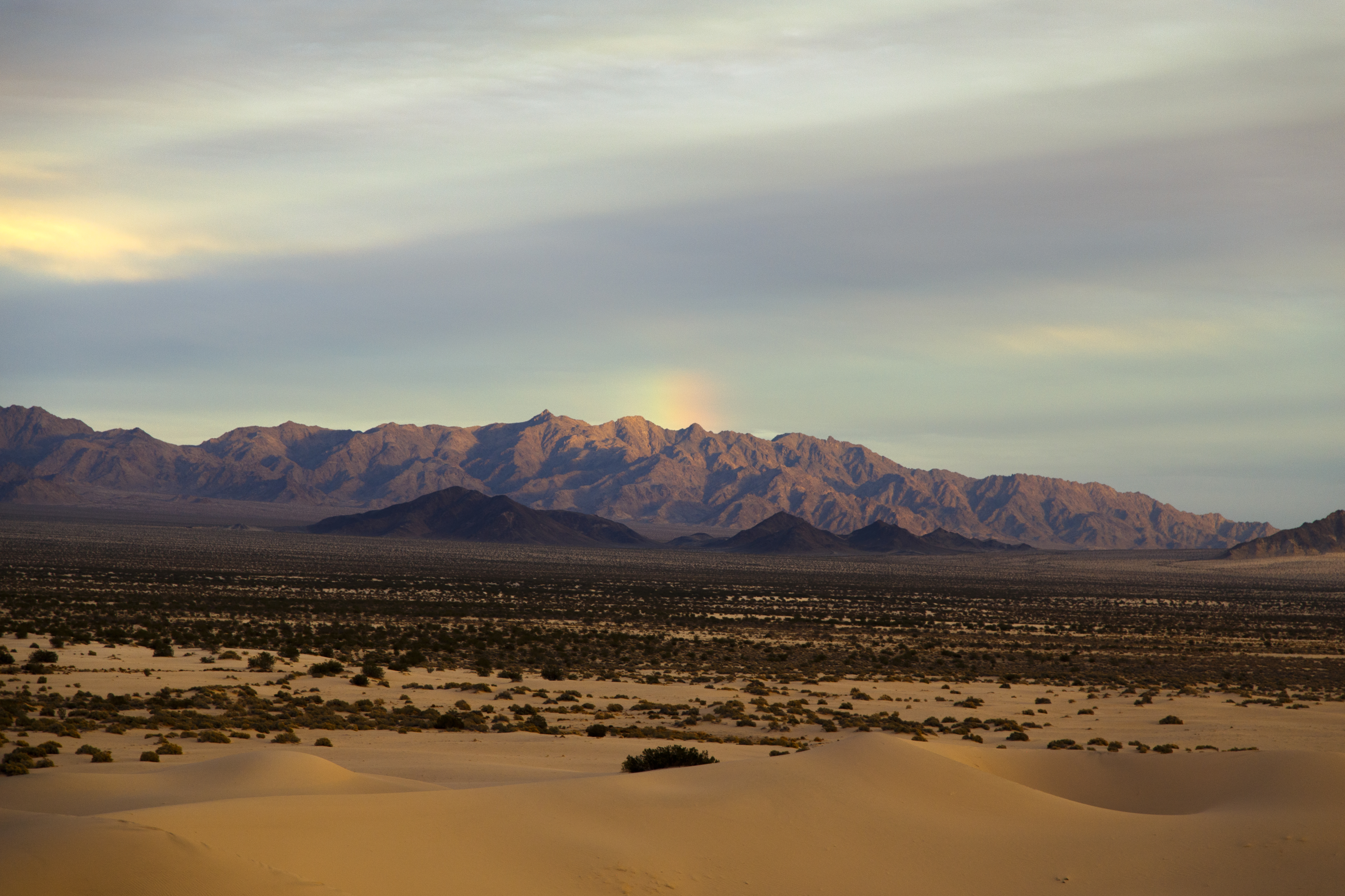 These small dunes, part of the Mojave Trails National Monument, were formed by north winds pushing sand off the Cadiz Dry Lake. The pristine nature of the Cadiz Dunes Wilderness and the beautiful spring display of unique plants and desert wildlife like the fringe-toed lizard have made the area a favorite for many photographers. Mojave Trails National Monument just east of Los Angeles, California spans 1.6 million acres and includes rugged mountain ranges, ancient lava flows and fossil beds, and spectacular sand dunes. The Monument also contains irreplaceable historical resources, such as the longest-remaining undeveloped stretch of the iconic Route 66 and World War II training camps. Photo by Kyle Sullivan, BLM.